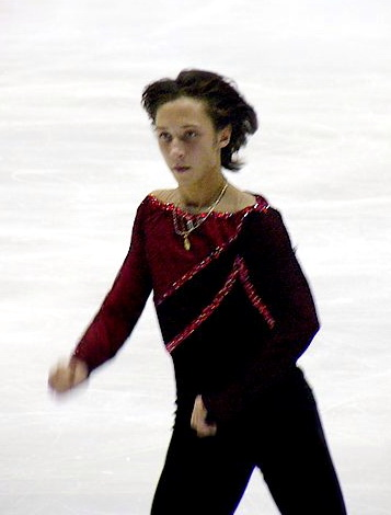 Johnny Weir during the 2004 NHK Trophy (SP).